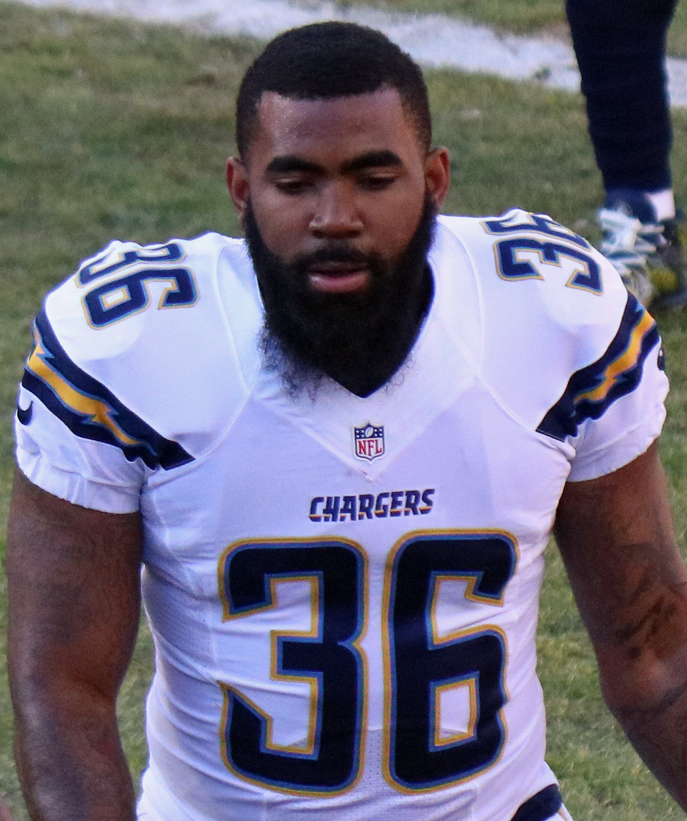 Dreamius Smith, a player on the National Football League.